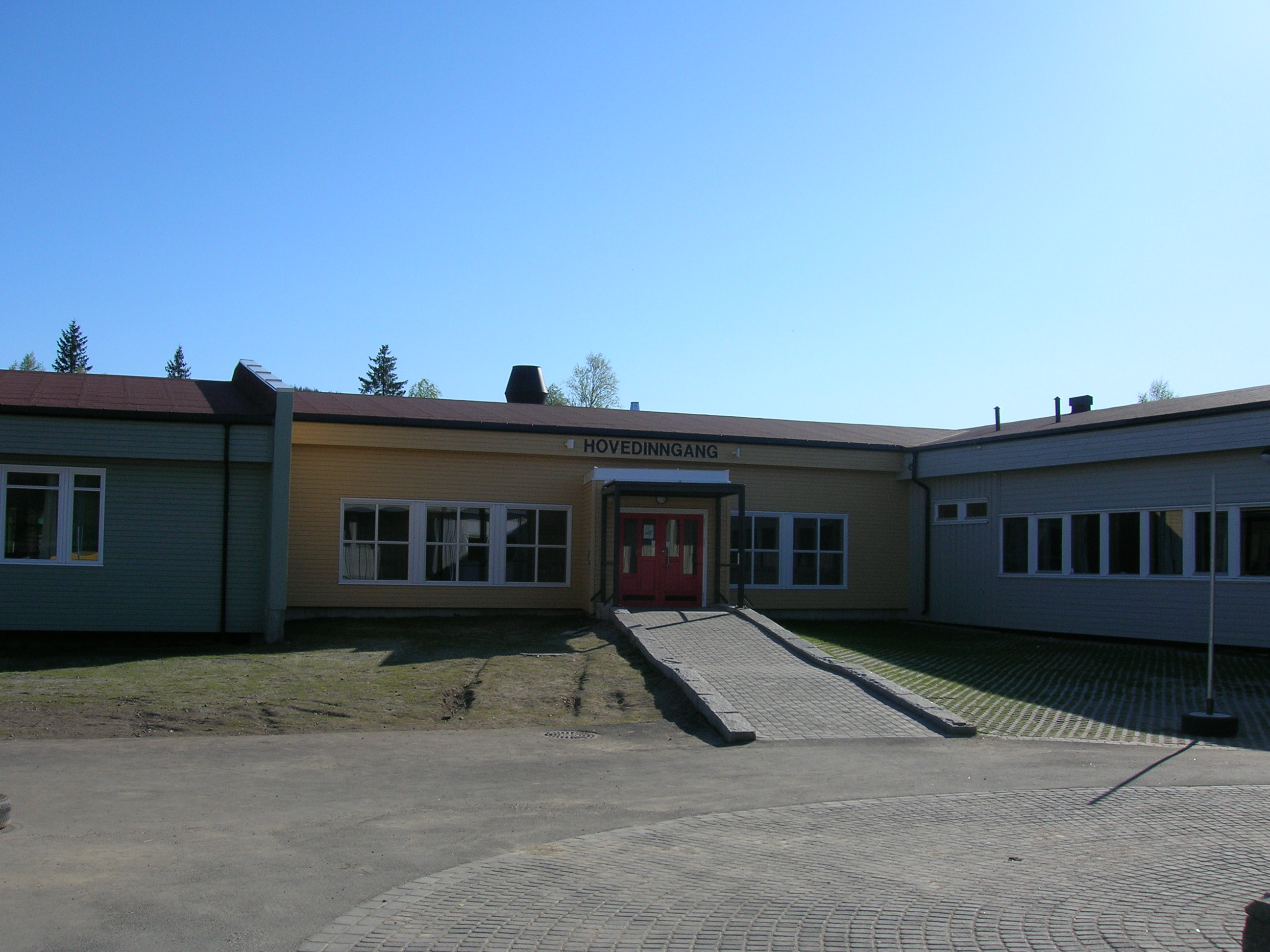 The school of Storforshei, Dunderlandsdalen, Rana municipality in Nordland county, Norway. Photo June 2, 2008 with a Nikon Coolpix 5600 5,1 Megapixel camera.